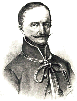 A depiction of Count Janko Drašković